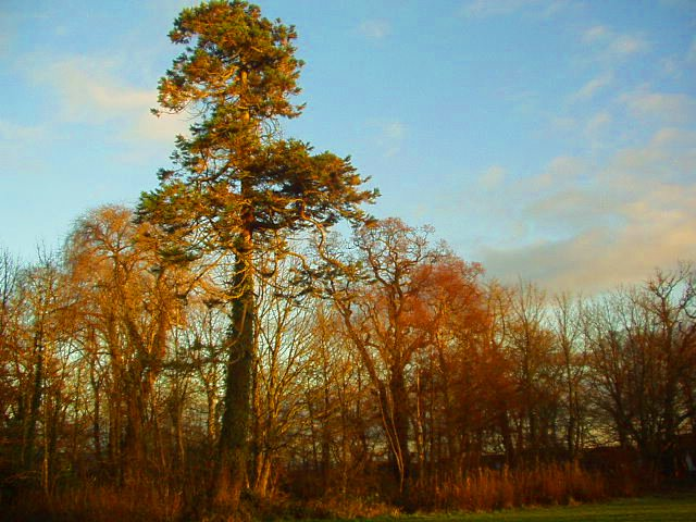 From my own collection